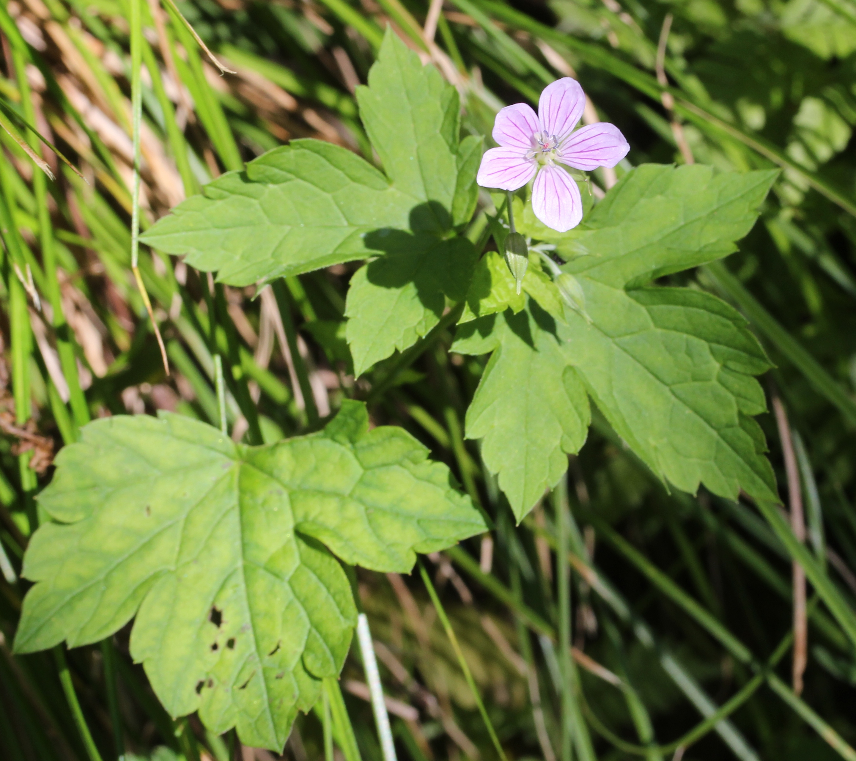 Geranium wilfordii in Mount Ibuki, Ibigawa, Gifu prefecture, Japan.